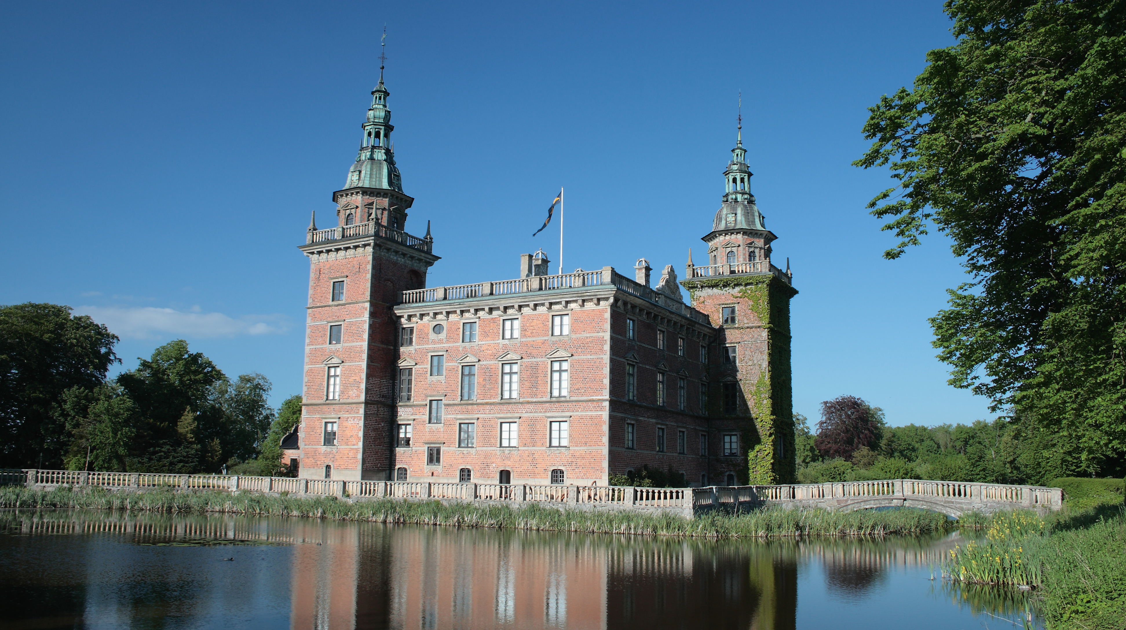 Marsvinsholm Castle at Ystad in Scania, Sweden.